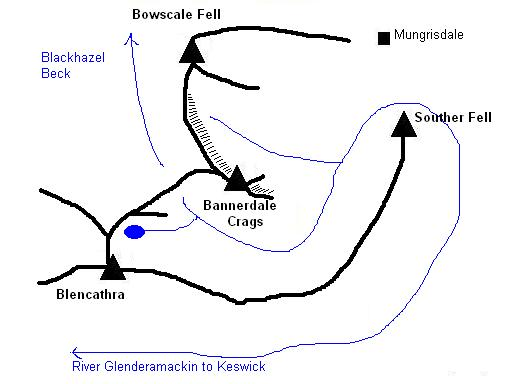 Sketch map of Bannerdale Crags, English Lake District